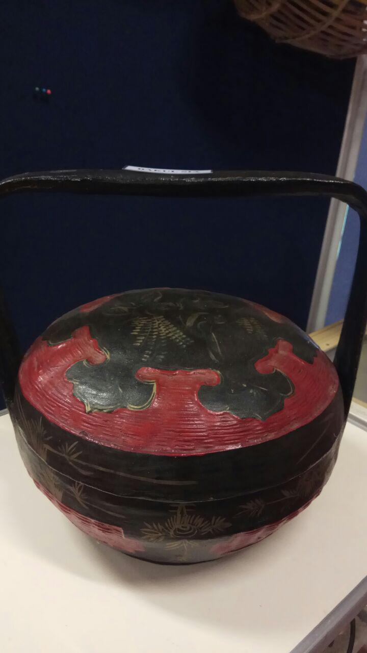 Bakul Siah